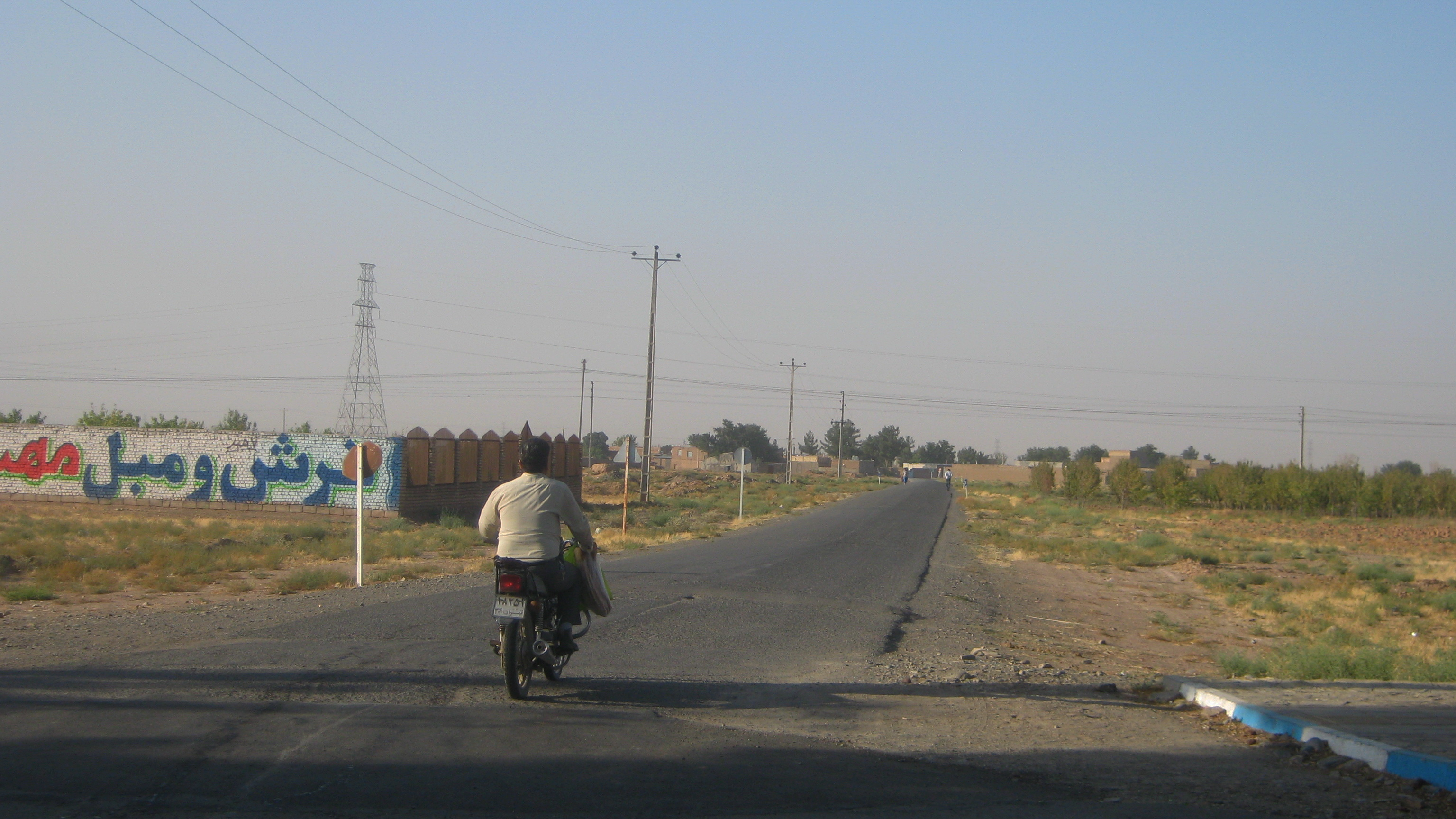 Road to Haghieyah village from Erfan blv - Nishapur